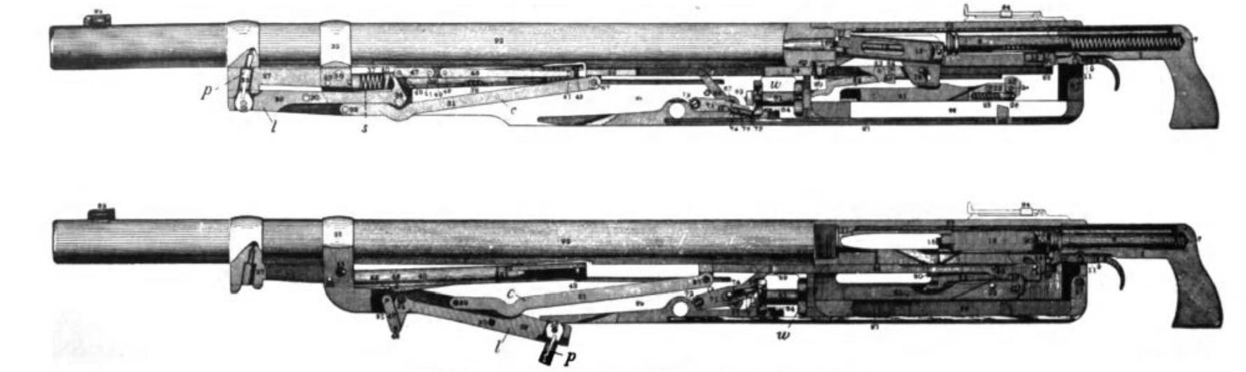 Diagram of the M1895 Colt-Browning machine gun's unique gas actuated lever operating system. p is the plug, which can be seen in the port on the bottom of the barrel on the left side of the upper image. When the gun is fired, hot gasses behind bullet pop the plug out of the port and cause the lever, l, to be driven downward. the lever is hinged near point 40 (difficult to read), so its rotates down and to the rear. This motion causes the longer operating lever, c, to move downward and be pushed to the rear. This presses on a sliding rod, unlabeled, which rotates the bolt upward to unlock it and then pushes it rearward against the long spring in the handle, ejecting the round. This spring pushes the bolt forward again, until it seats a newly loaded bullet and then drops downward into the tilted position seen in the upper diagram. The smaller spring, s in the upper diagram, pushes the small lever forward until the plug is pressed back into the port.